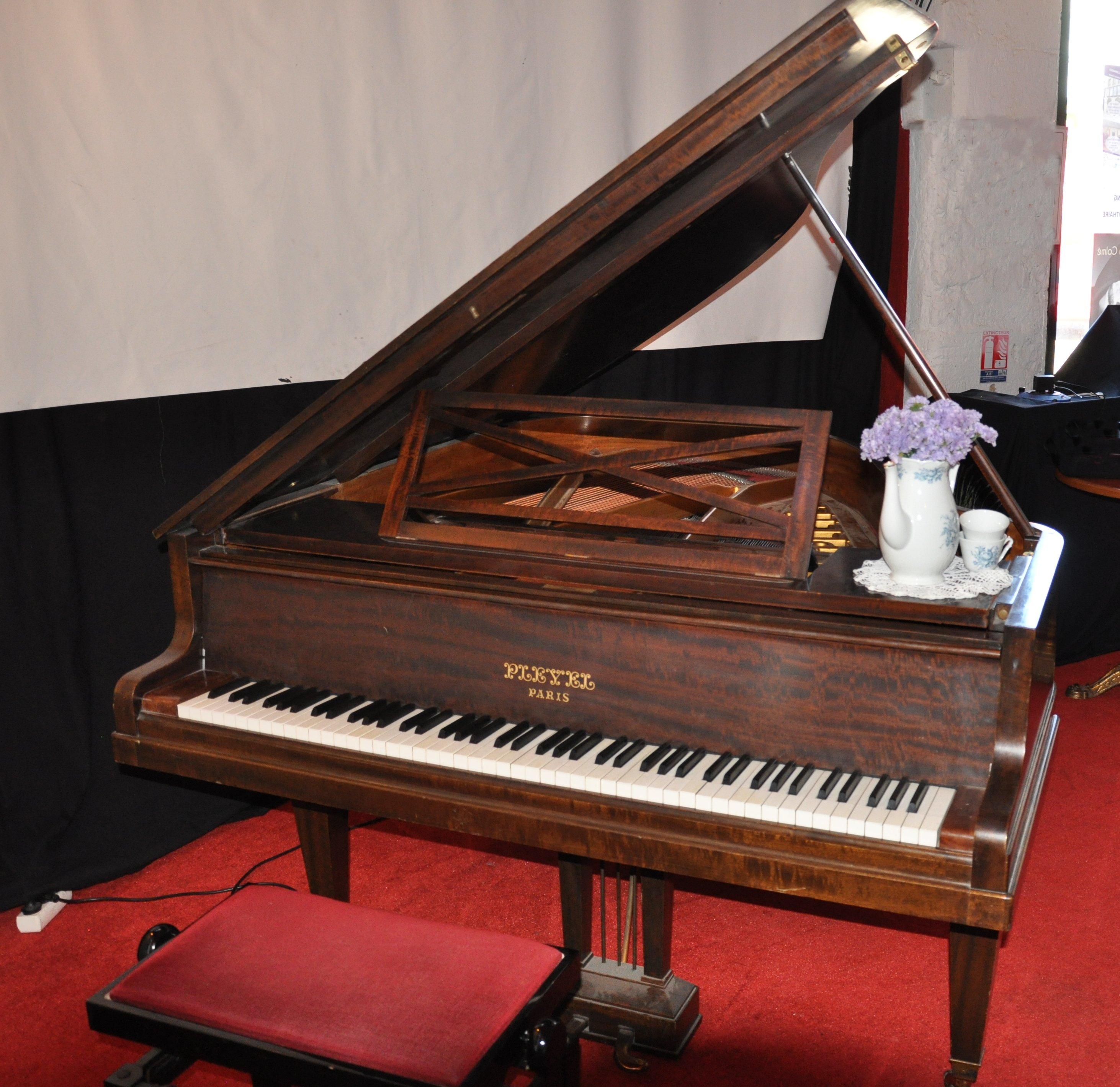 Pleyel piano